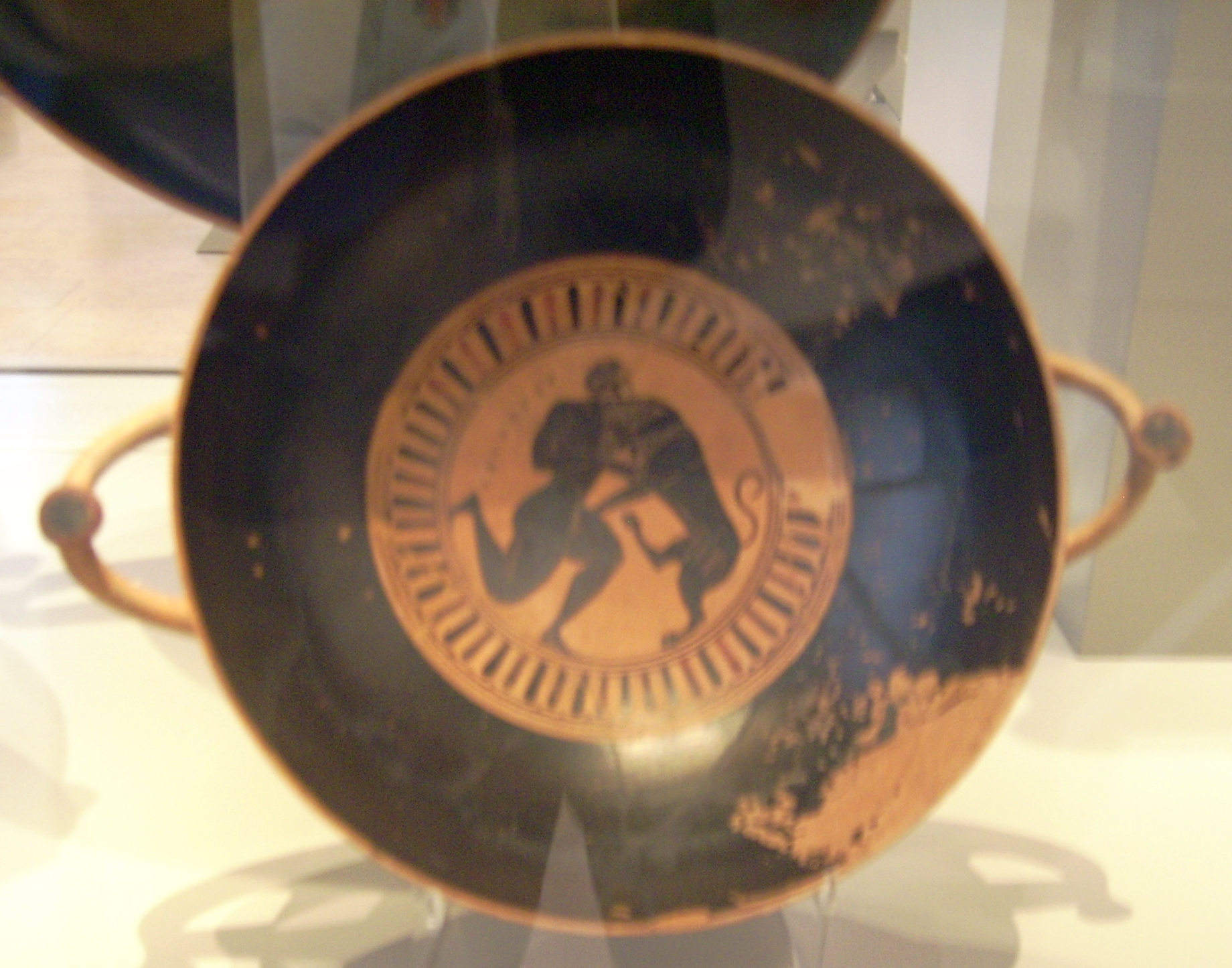 Kylix of late Merrythought Cup (handles are shaped like a wishbone). See Shape of kylikes